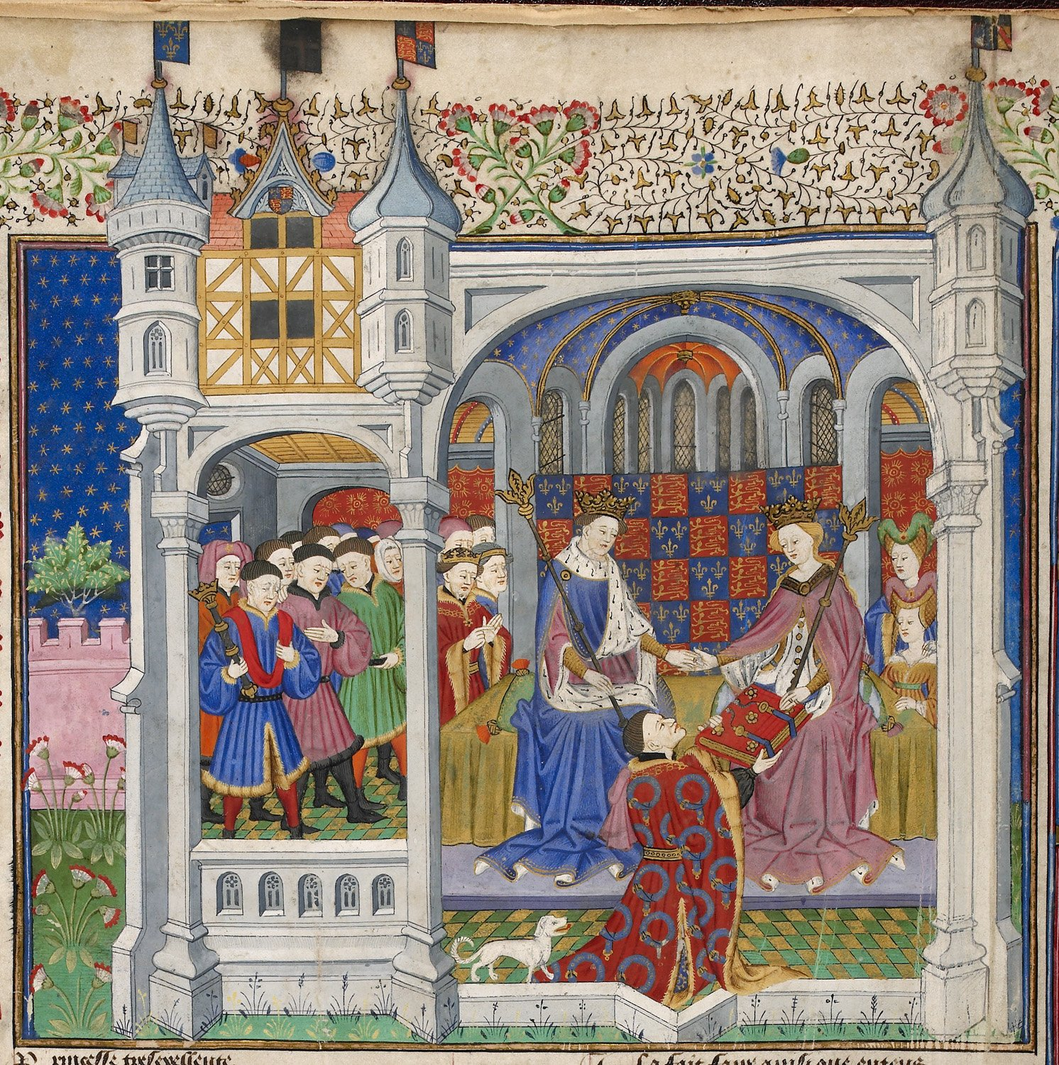 Presentation scene; detail of a miniature from BL Royal MS 15 E vi, f. 2v (the "Talbot Shrewsbury Book"). Held and digitised by the British Library.